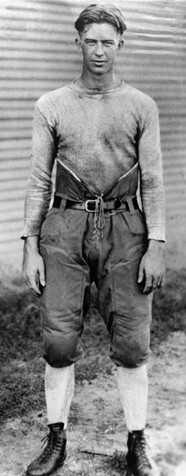 E. King Gill, player of Texas A&M american football team.